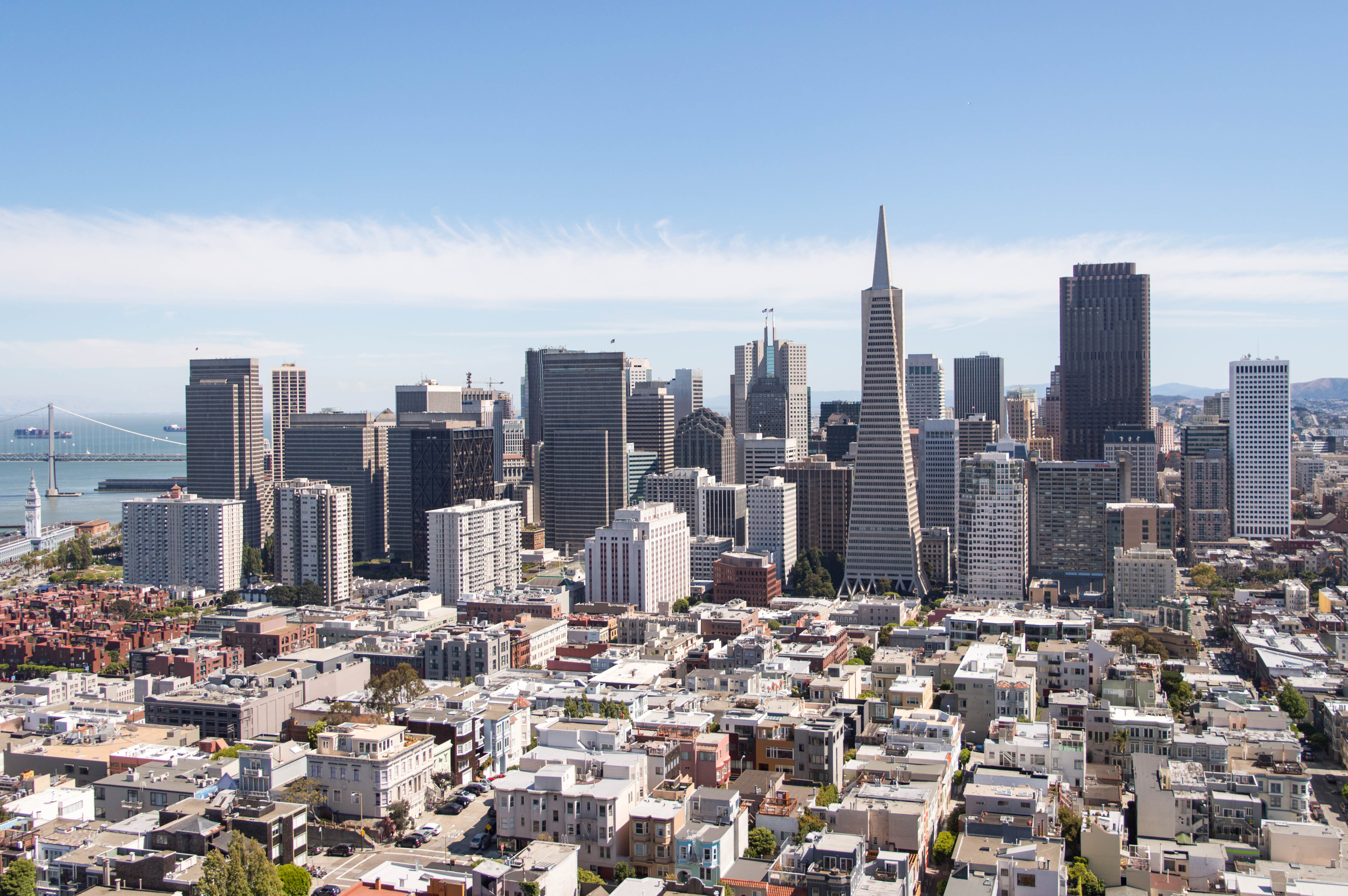 The skyline of San Francisco, seen from the Coit Tower.